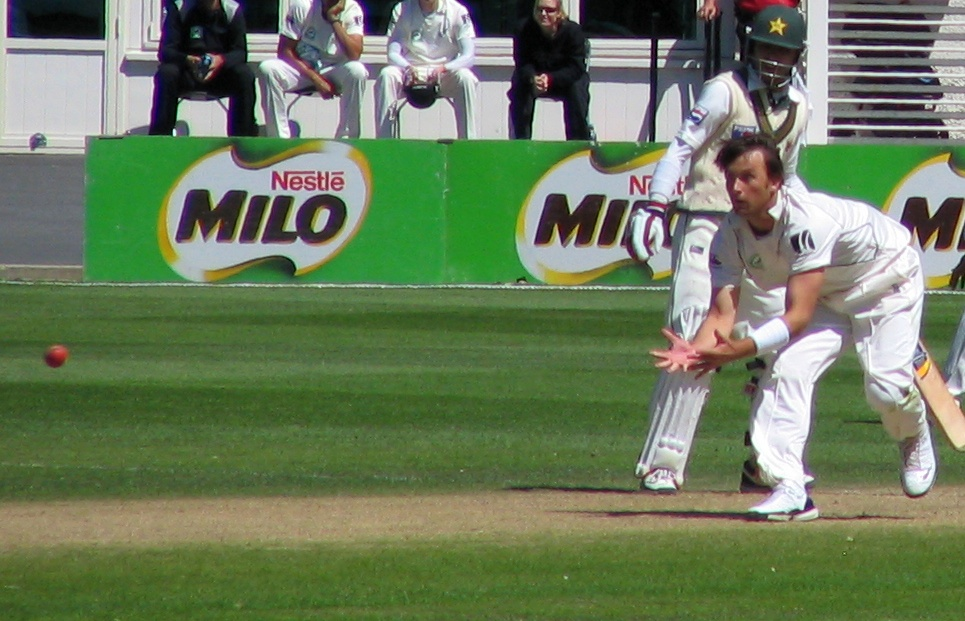 New Zealand fast bowler Shane Bond, about to take Mohammad Yousuf caught-and-bowled, while Fawad Alam looks on, during a test match vs Pakistan at the University Oval in Dunedin, New Zealand